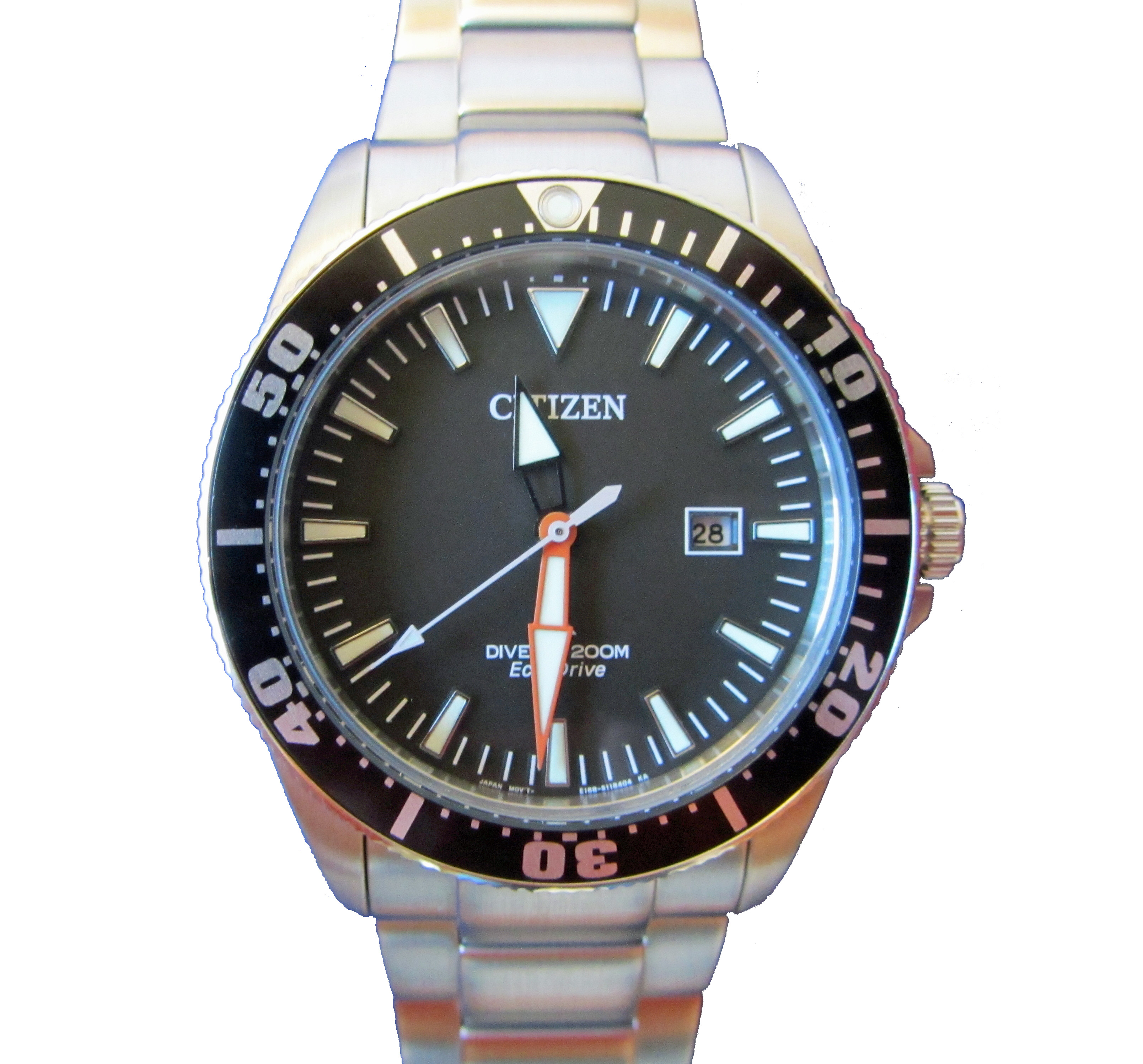 Diver's watch Citizen BN01100-51E, Caliber E168, Eco-Drive, pressure resistant up to 200 meters